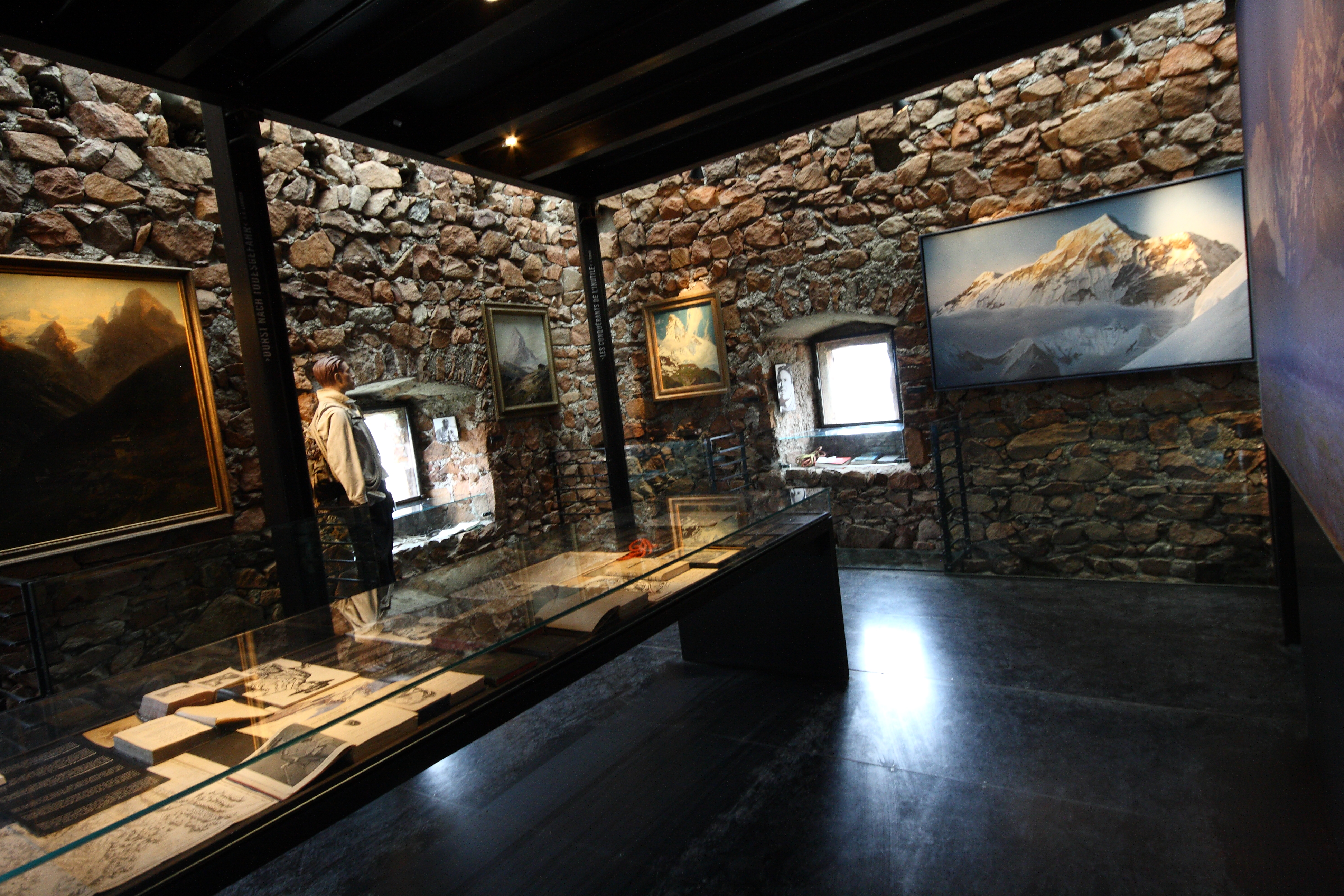 Castle Sigmundskron (Firmian), Bozen, South Tyrol